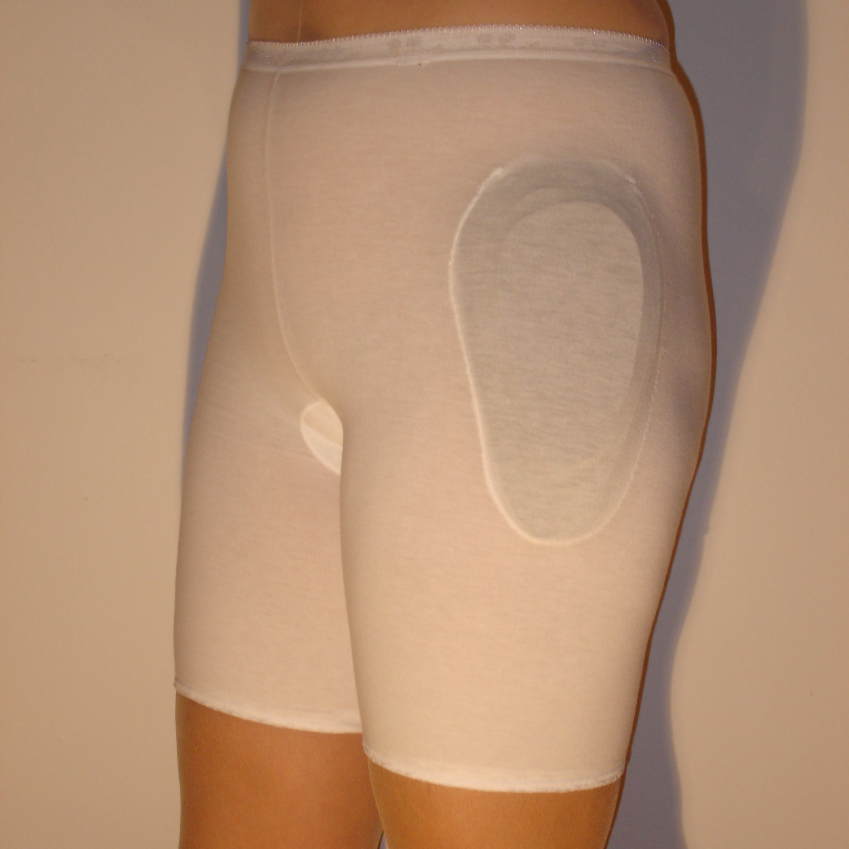 Astrotech Advanced Elastomereproducts